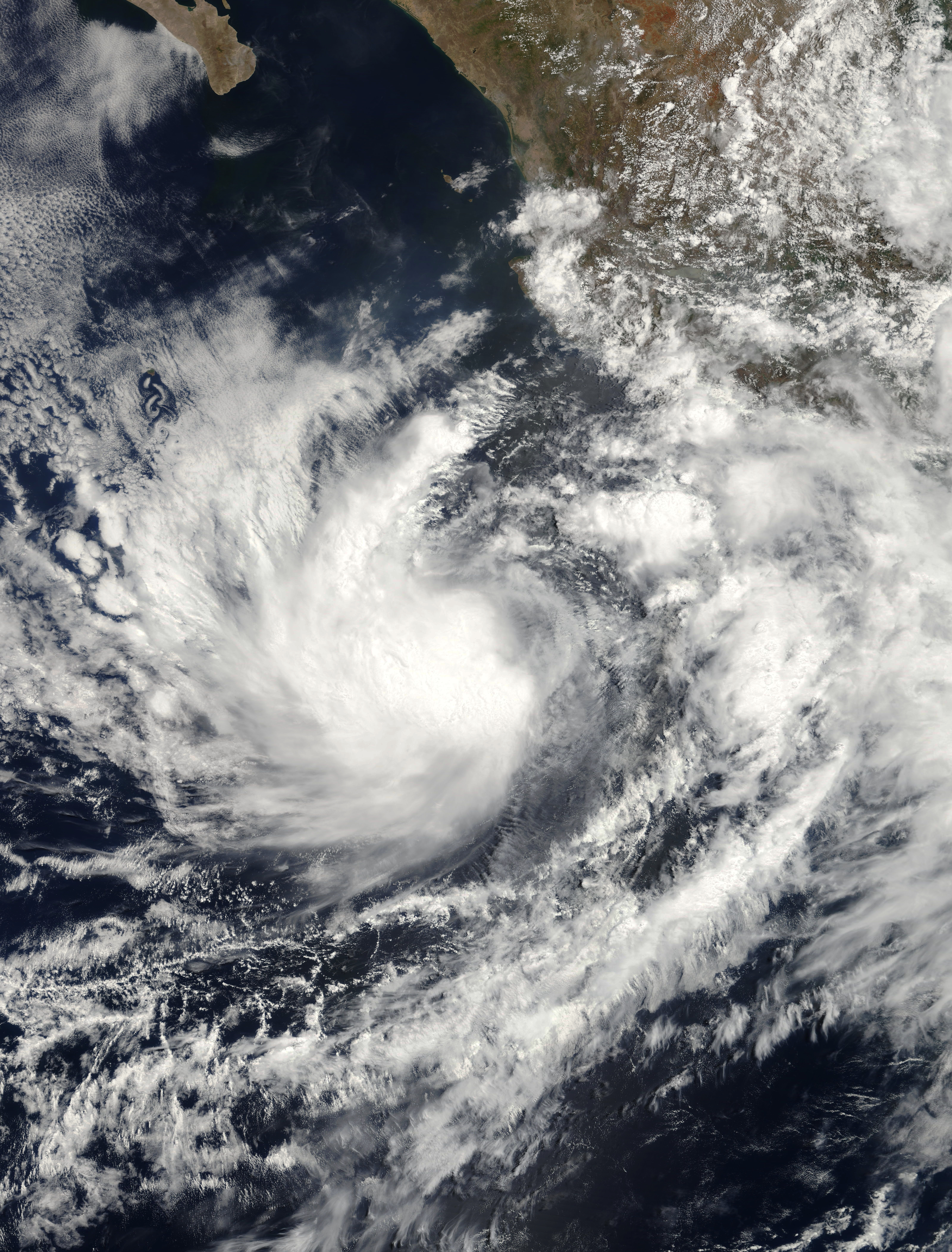 NASA Terra image of TS Blas at 17:40 UTC on 2010-06-17.